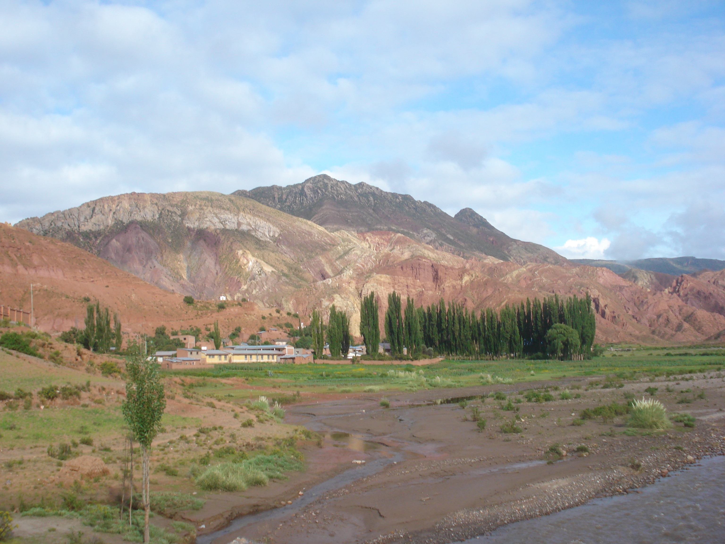 The village Huanacoma in the north of Departamento Potosí